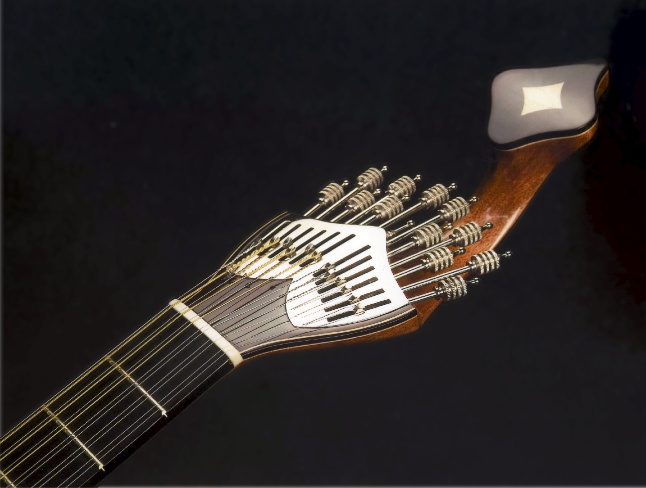 "voluta"